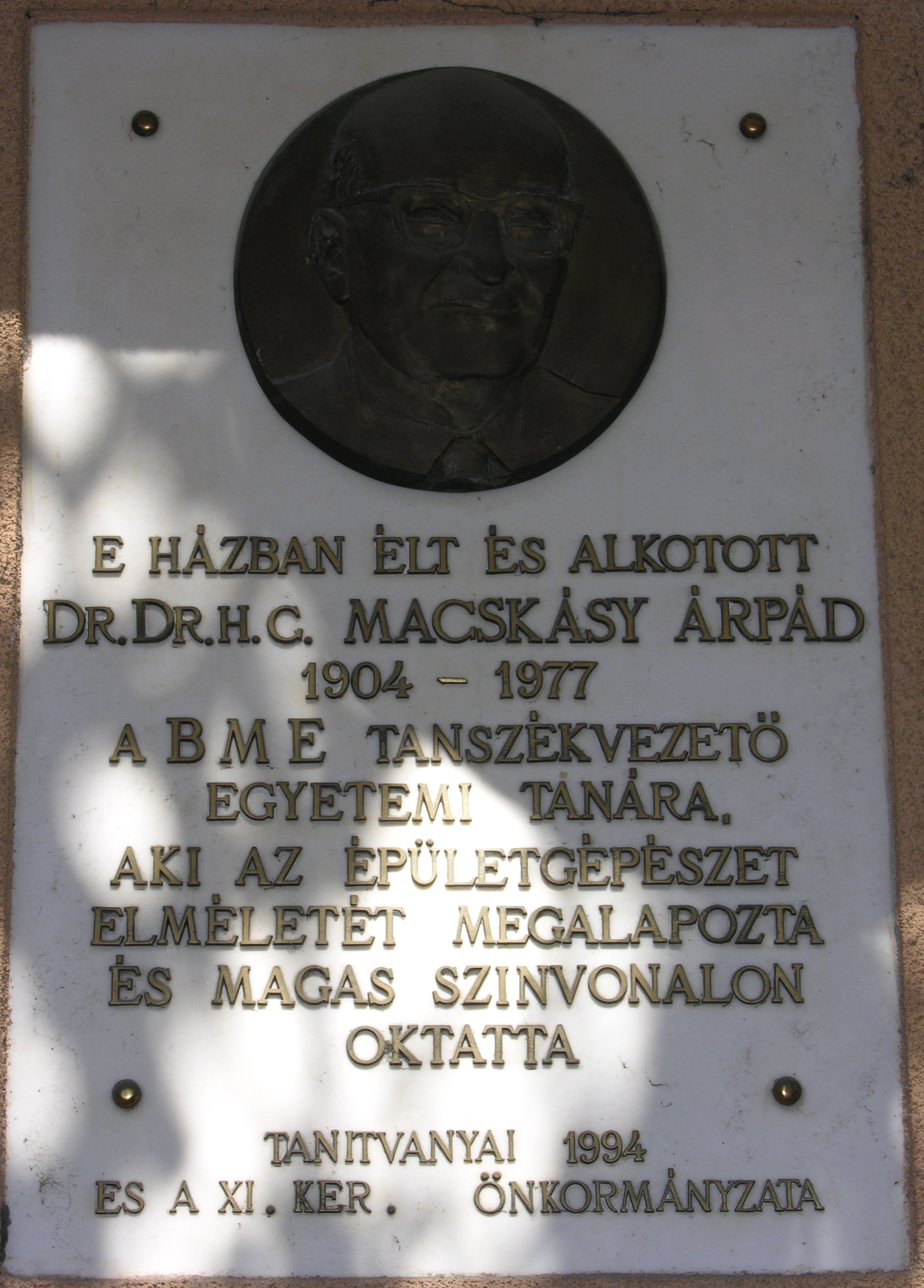 Commemorative plaque of Professor Árpád Macskásy, mechanical engineer in Budapest District XI, Bertalan Lajos Street No 15